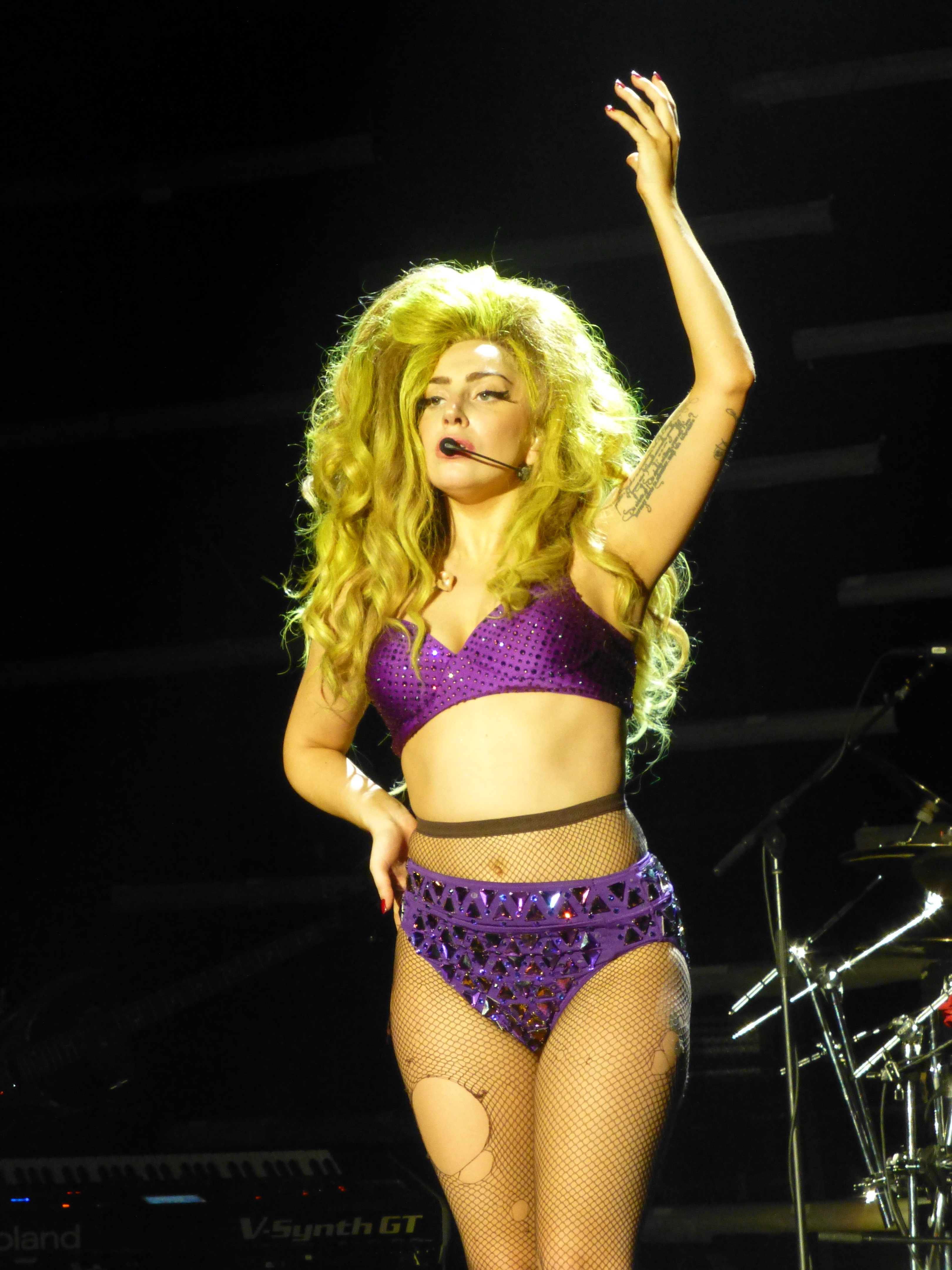 P1020503 Lady Gaga Live at Roseland Ballroom